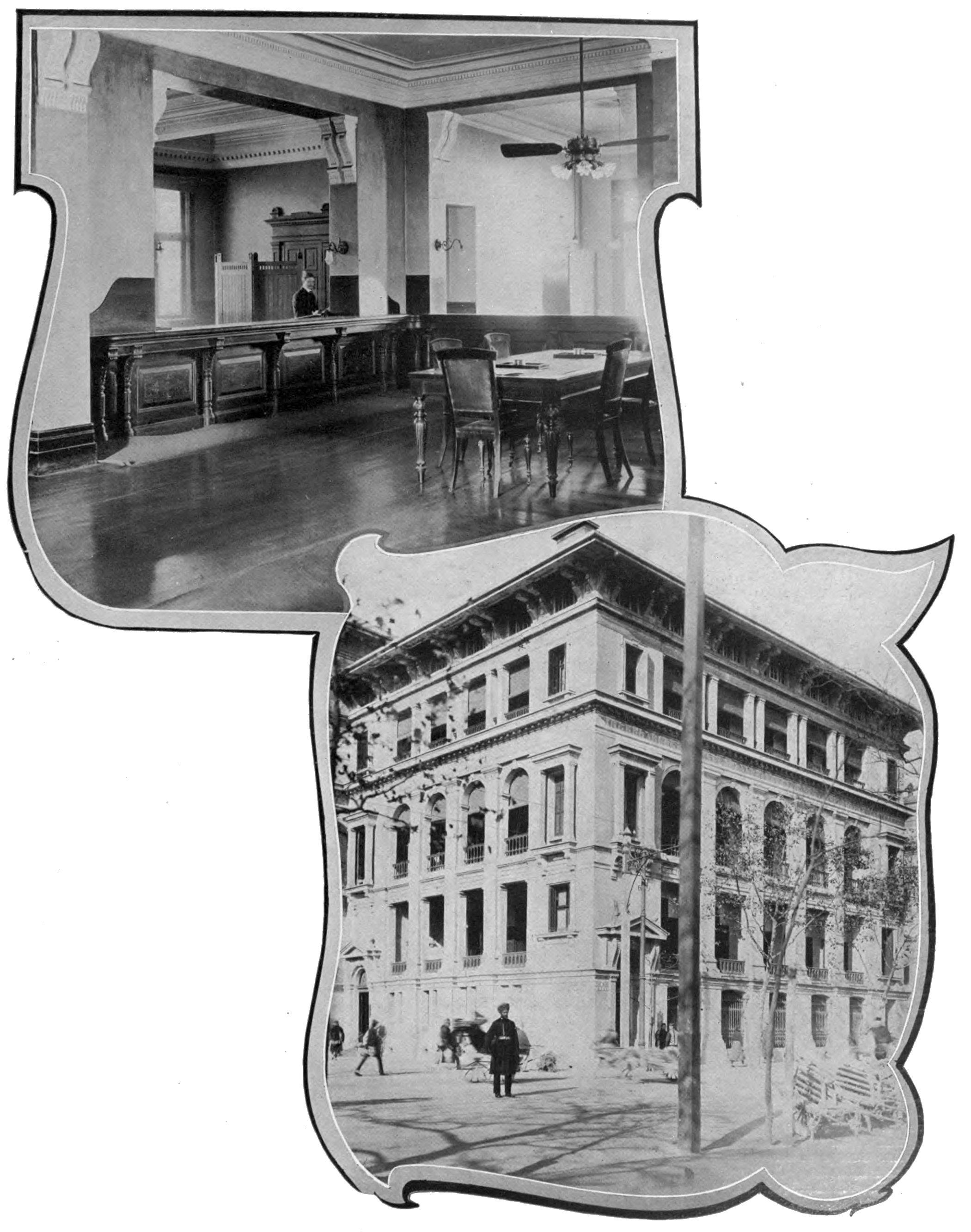 the german asiatic bank